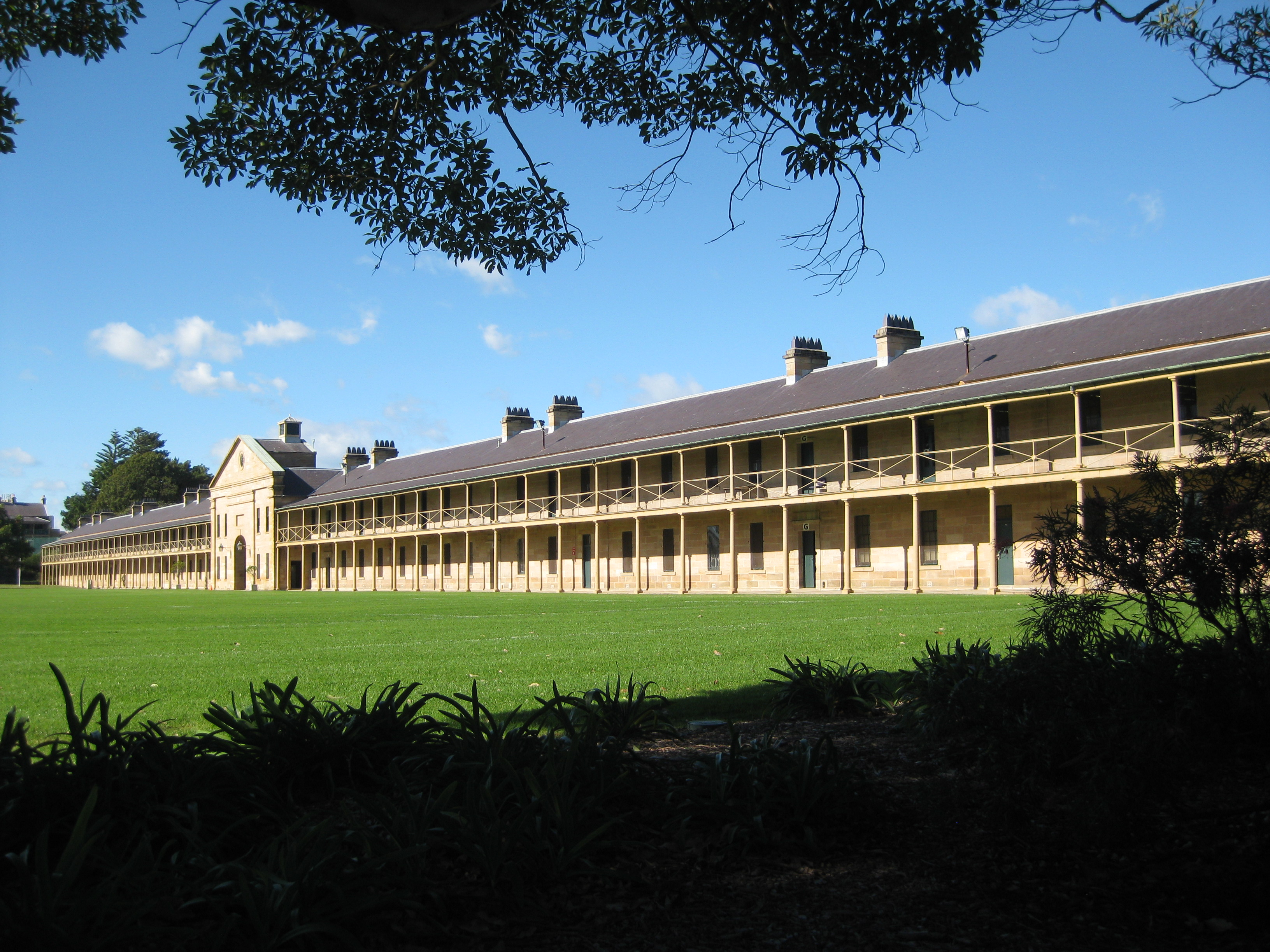 The main building of Victoria Barracks looking east across the parade ground